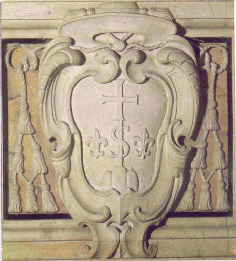 Celestine Order coat of arms, in a church at Foggia region (Italy)